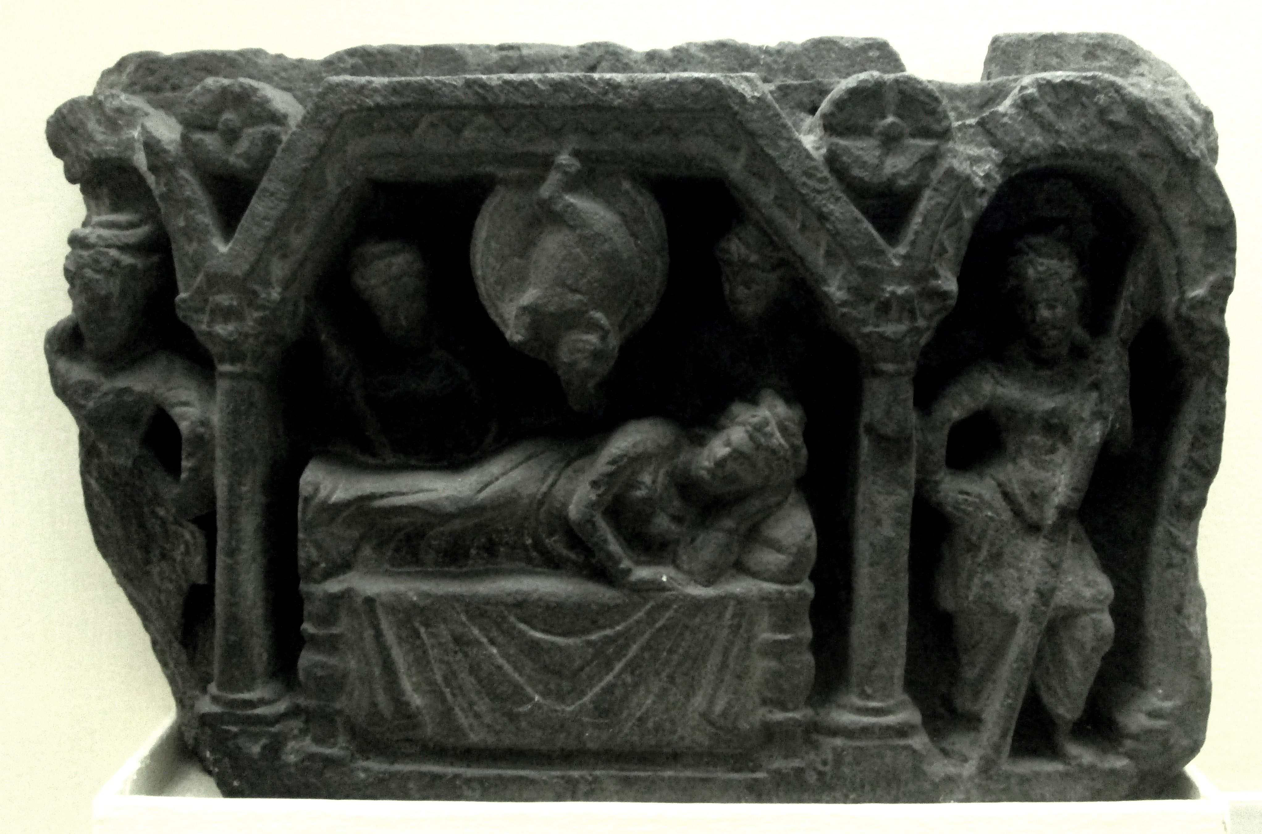 021 Dream of Mayadevi, Mardan, at the Indian Museum, Kolkata Photograph from the Indian Museum in West Bengal taken by Anandajoti.